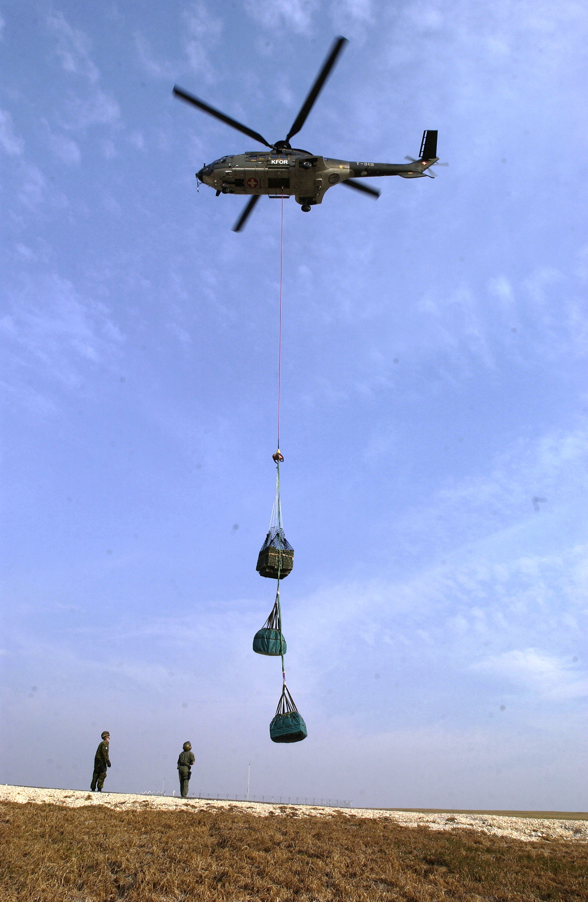 KFOR soldiers of different contries observe a tandem load being flown by a Swiss AS-332 Super Puma during the KFOR Inter-Operability Execise. Multi-National Brigade (EAST) hosts the KFOR IOX to familiarize each participating nation on sling-load capabilities and limitations available in the Kosovo area of operations.